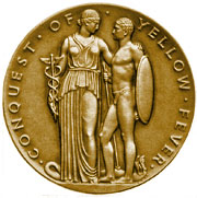 Bronze duplicate of Congressional Gold Medal awarded Walter Reed and others in 1929 (front)